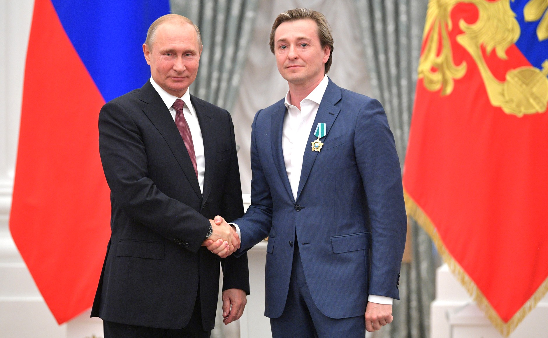 Vladimir Putin and Sergey Bezrukov at award ceremonies 27 Jun 2018, Kremlin, Moscow.